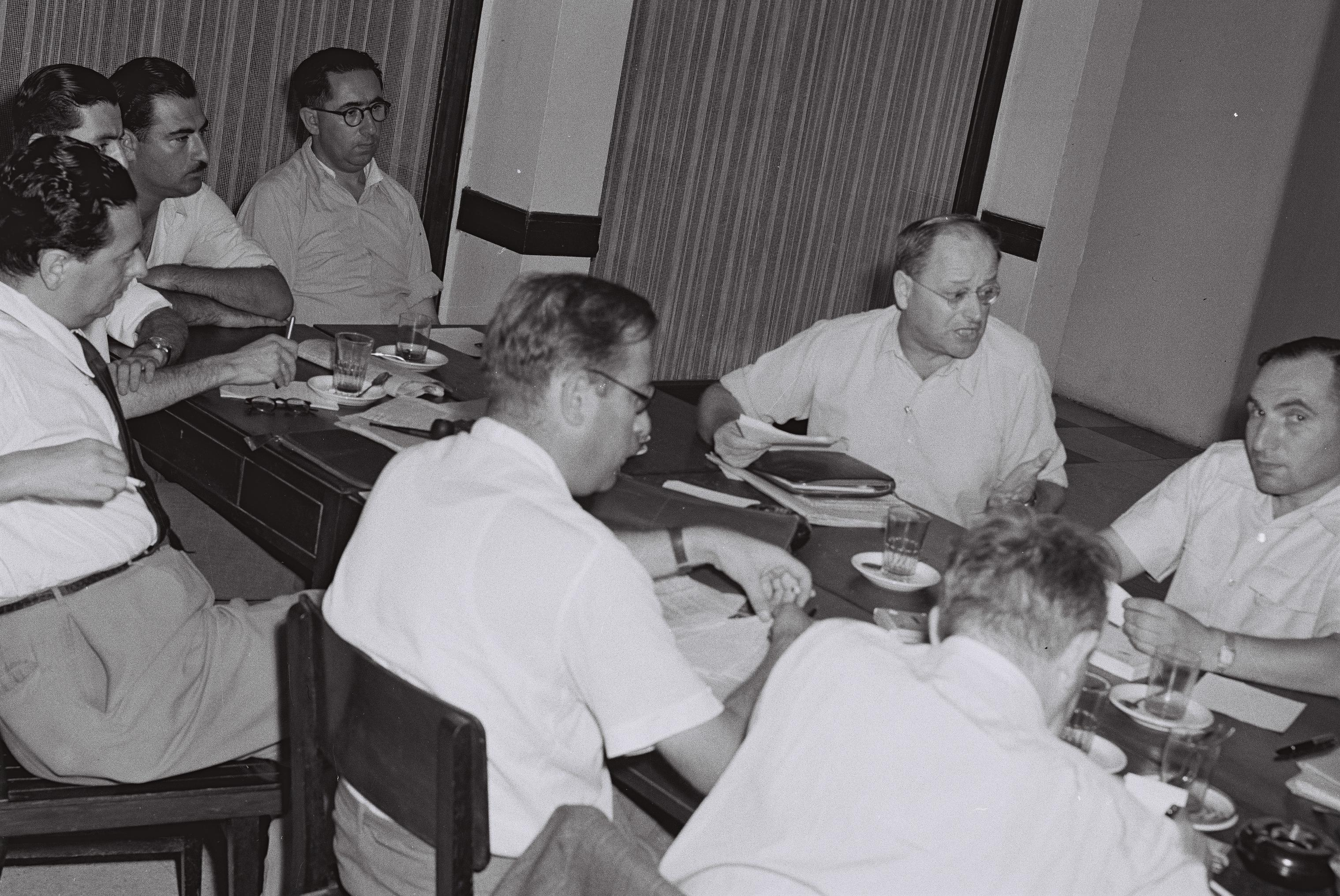 L. To T. Friedman Yellin, Merlin Herut, Tufiq Tuby (arab comm) pimenty, translator, Idov Kohen, a. pravy Mapam, Shafter, Mapai. in internal affairs committee in session.